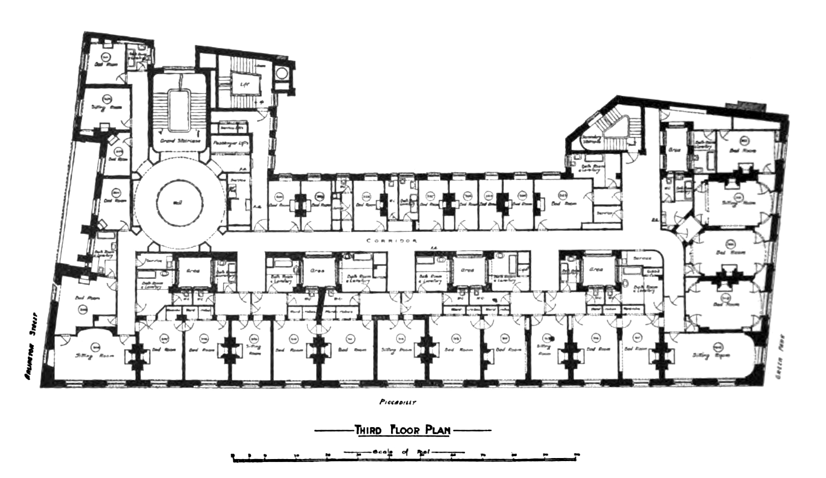 Original caption: Typical floor plan in the Ritz Hotel, London.